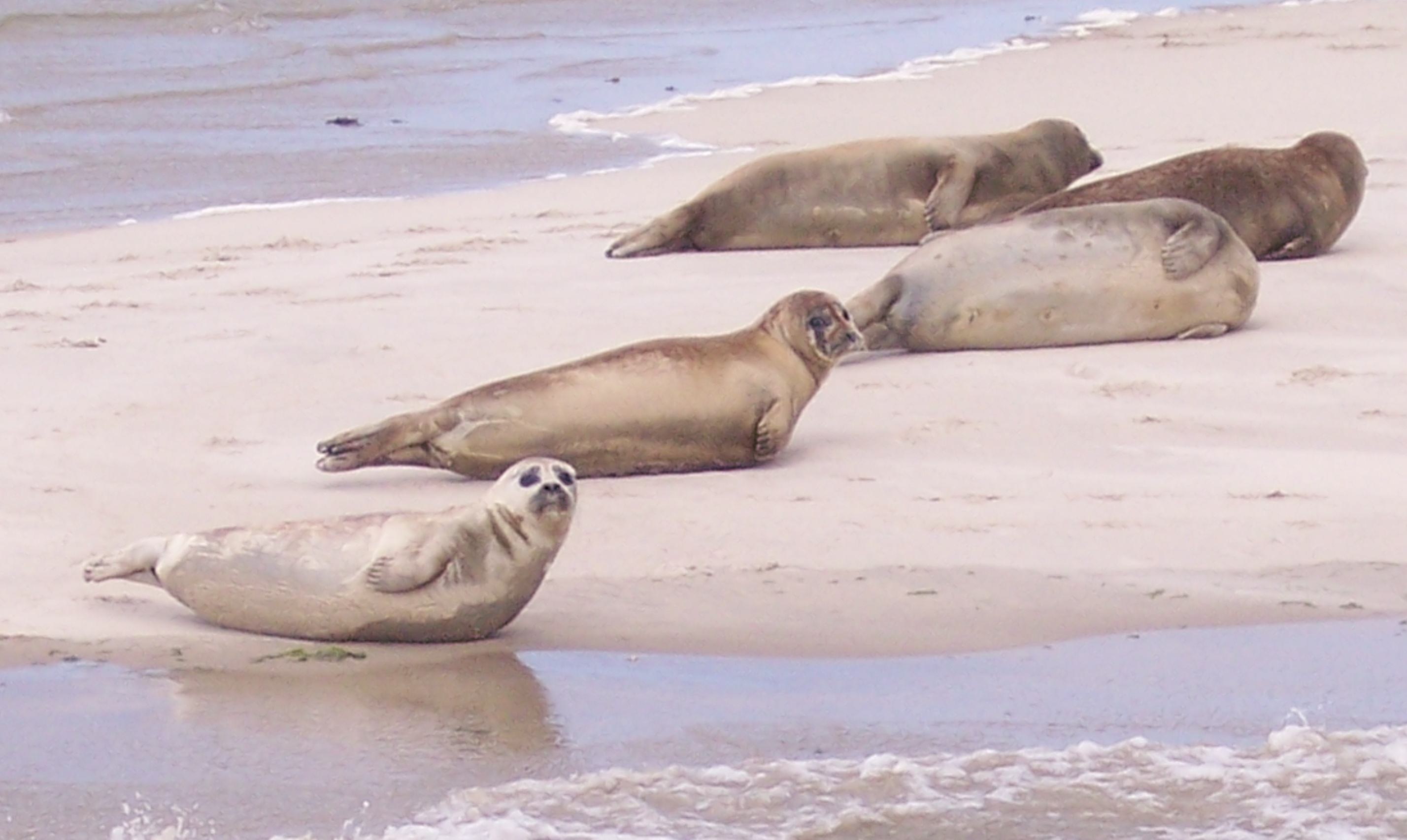 Phoca vitulina on a sandplate off Terschelling, Netherlands